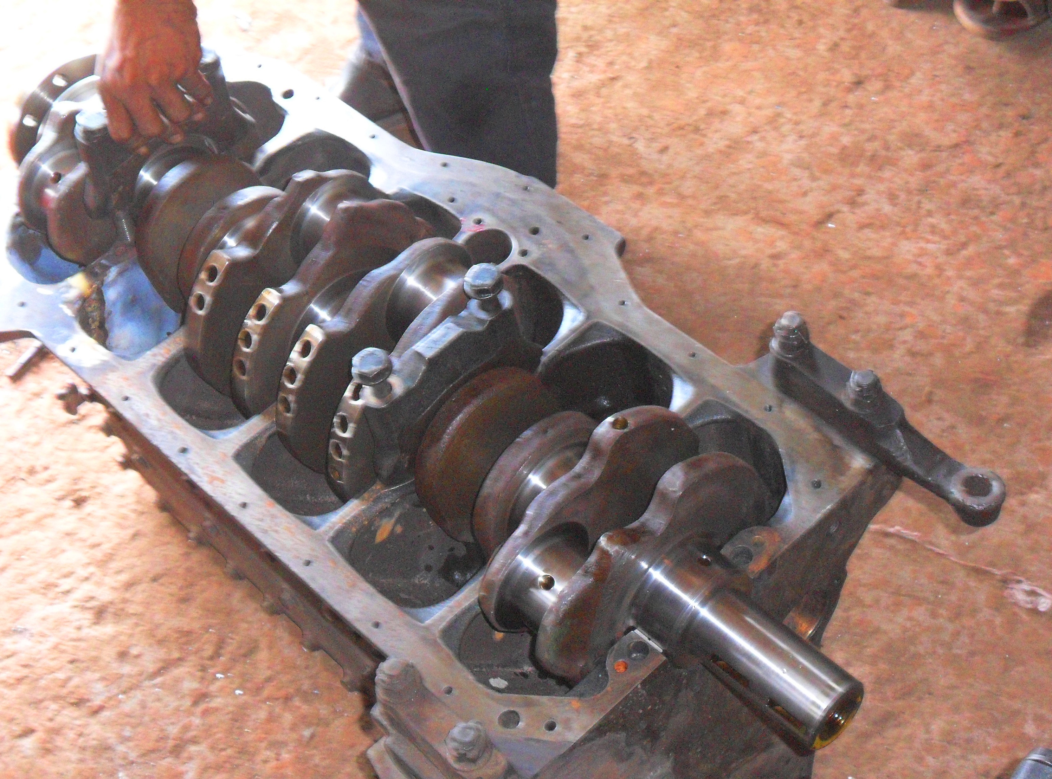 Crankshaft of an engine